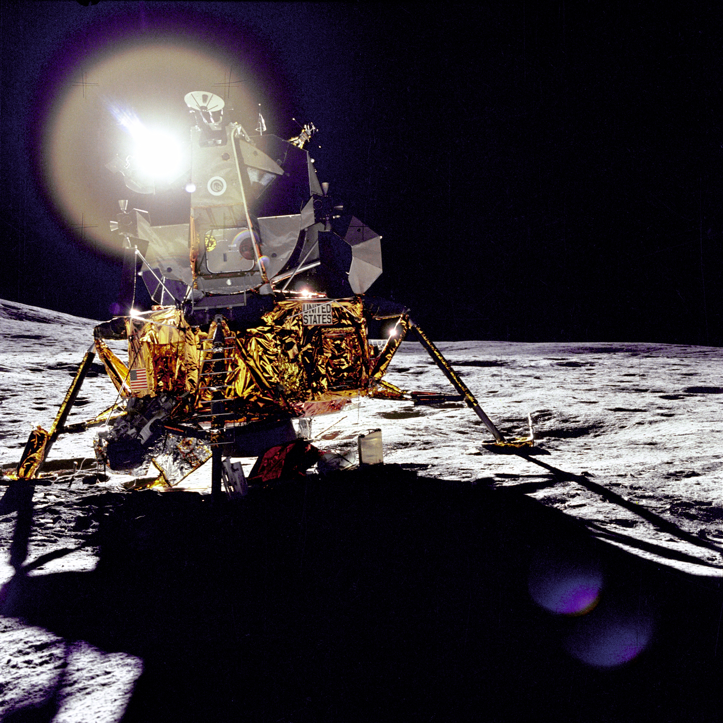 A front view of the Apollo 14 Lunar Module "Antares", which reflects a circular flare caused by the brilliant sun. The unusual ball of light was said by the astronauts to have a jewel-like appearance. At extreme left, the lower slope of Cone Crater can be seen.